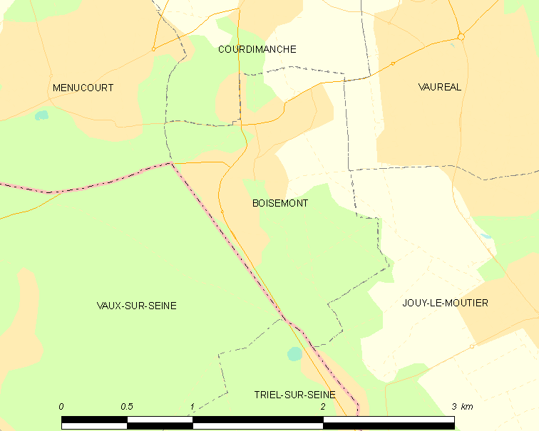 Map of French municipality Boisemont